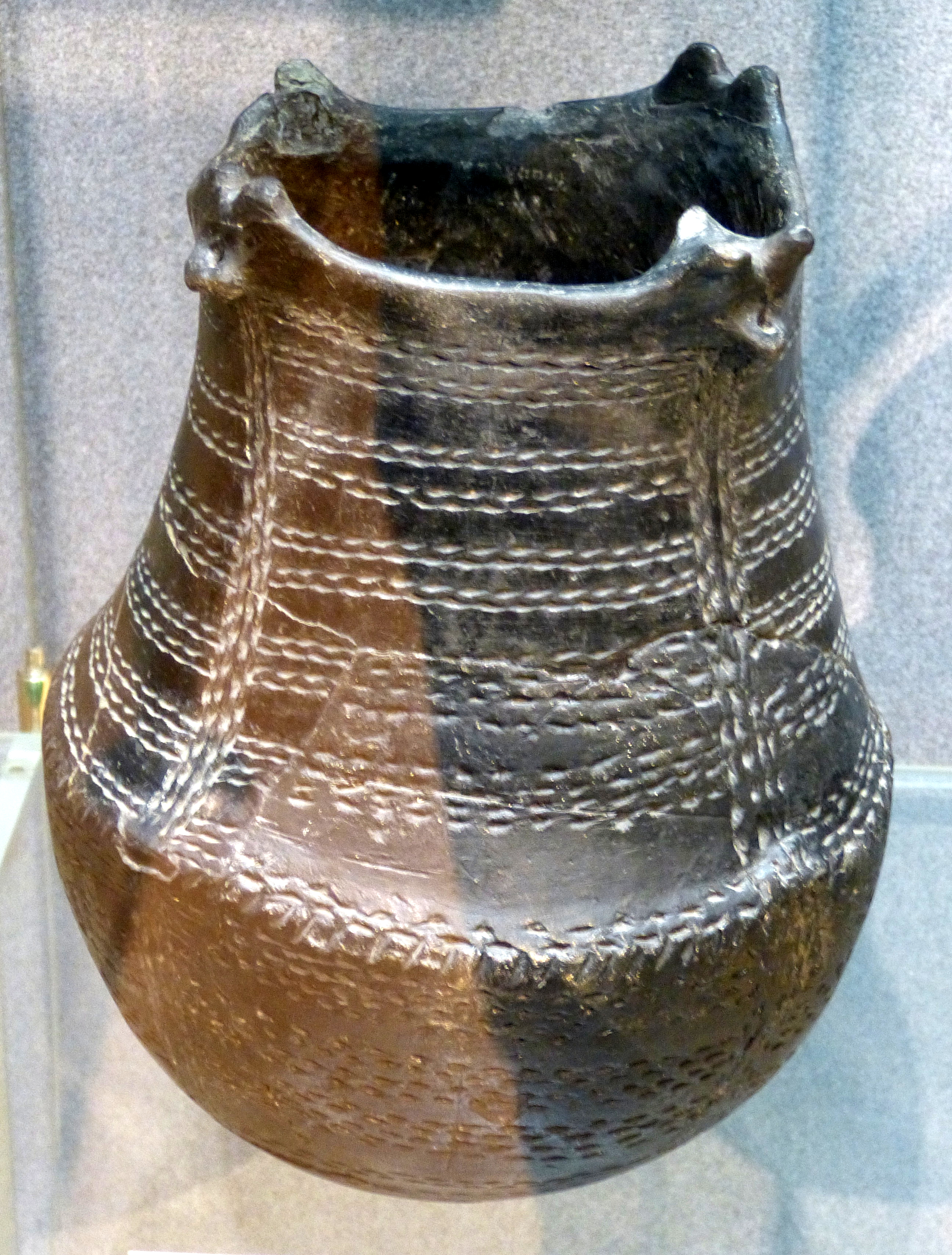 Weimar ( Thuringia ). Museum for Prehistory in Thuringia: Neolithic vessel with animal protomes in Bad Frankenhausen.